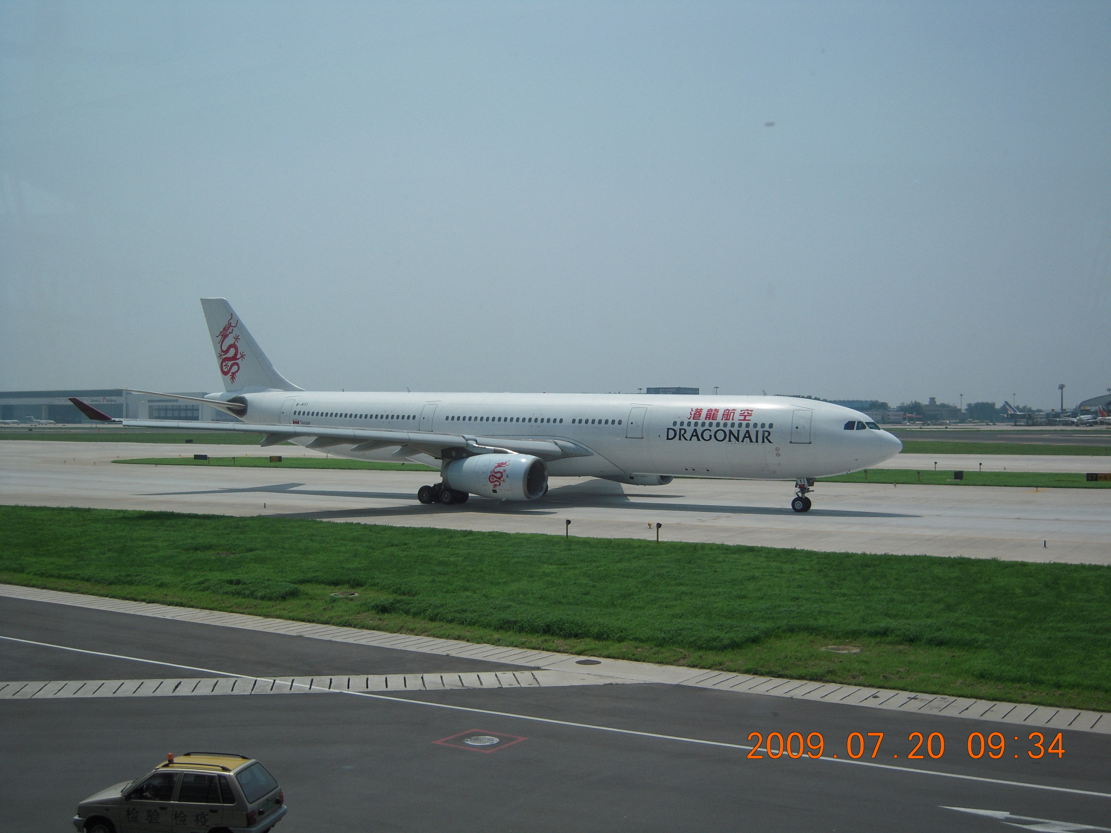 A Dragonair Airbus A330